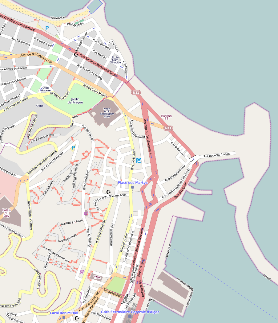 Map of the Kasbah, Algiers Geographic limits of the map: N: 36.79358° S: 36.77916° W:3.05482° E: 3.07027°